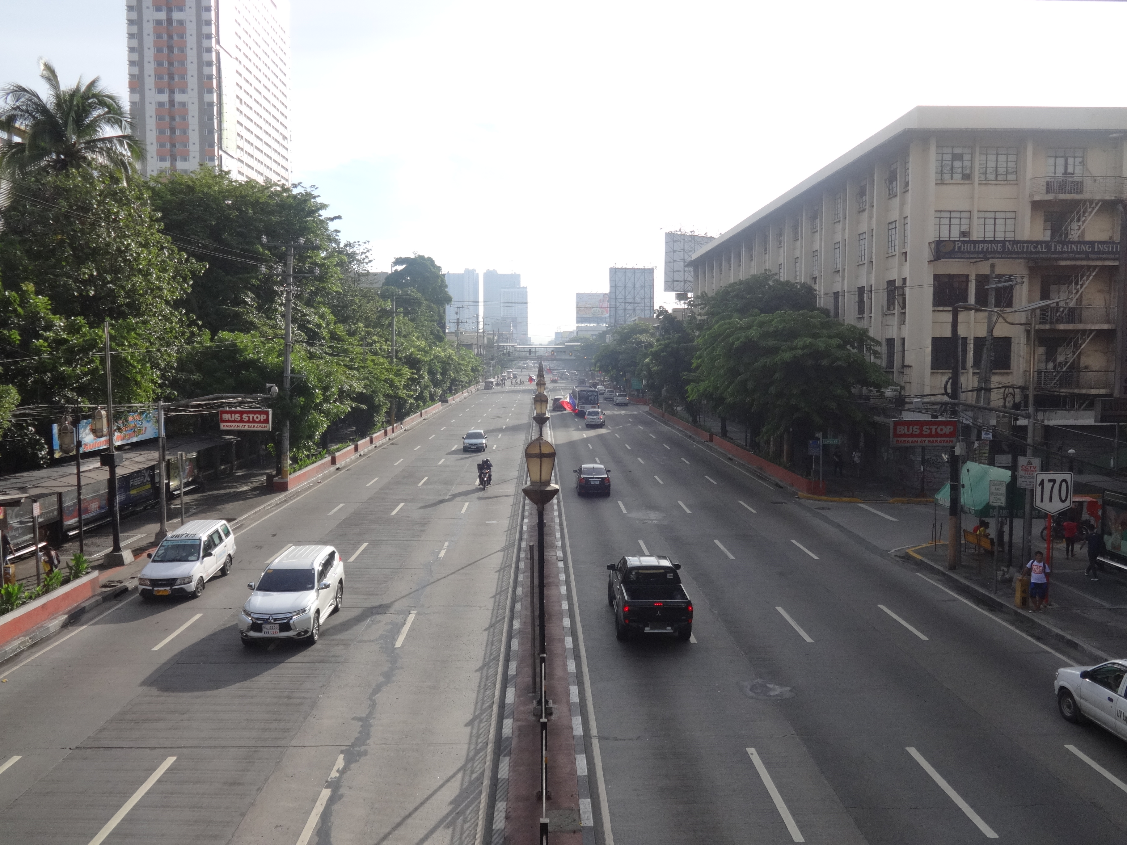 España Boulevard (N170) in Sampaloc, Manila